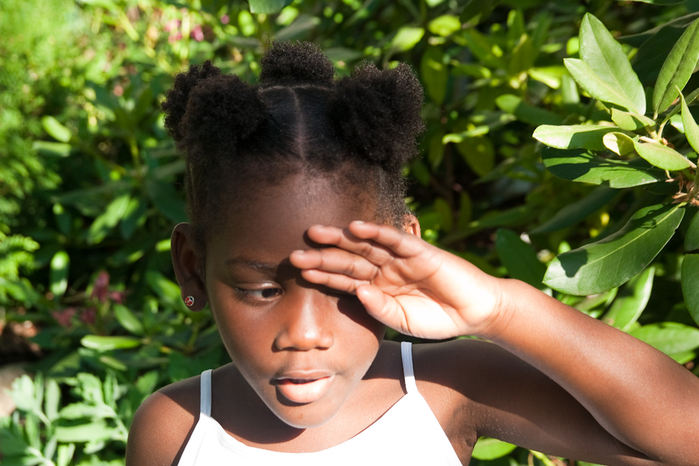 American little girl with Afro puffs hairstyle